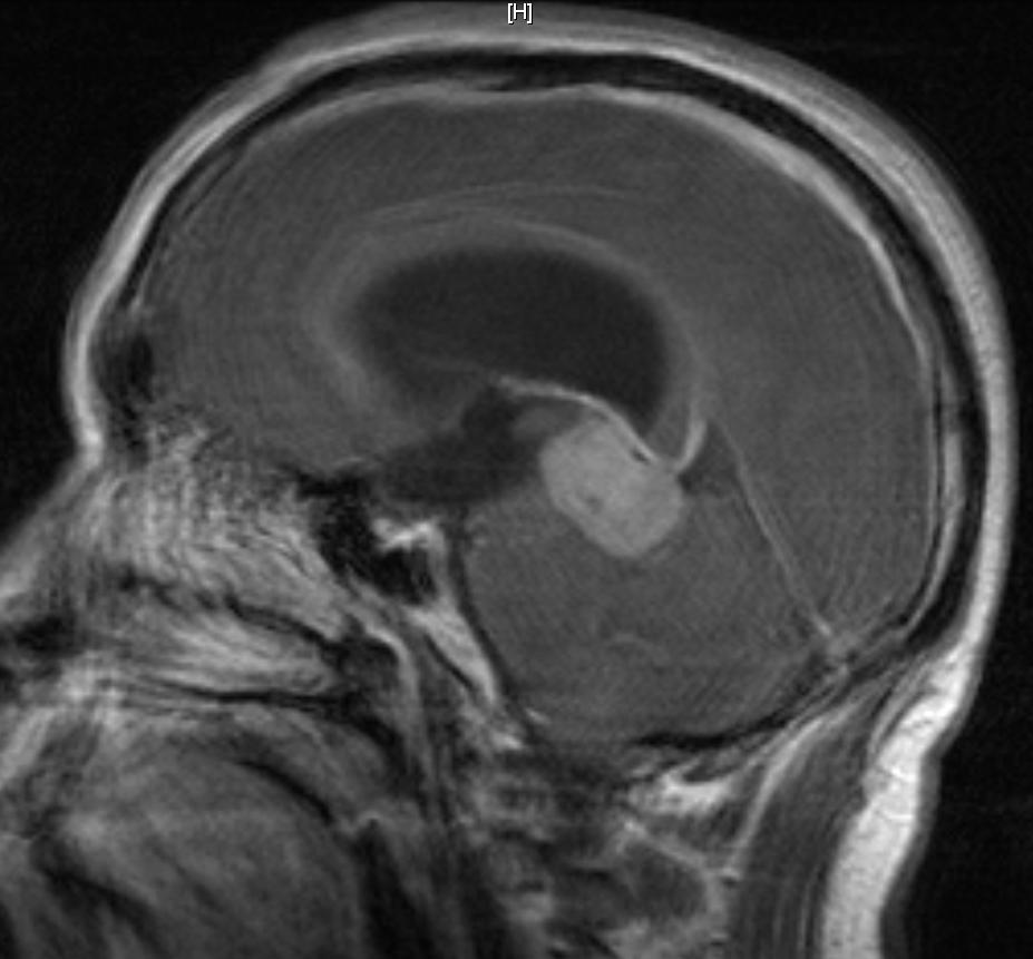 CNS Germinoma, MRI saggital with contrast.